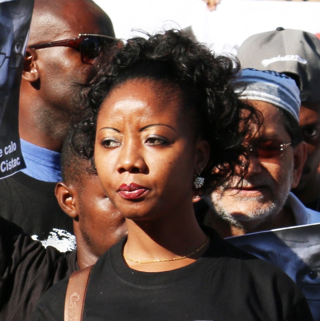 March in honour of murded lawyer Gilles Cistac in Maputo, Mozambique. In front Ivone Soares, RENAMO parliament group leader.